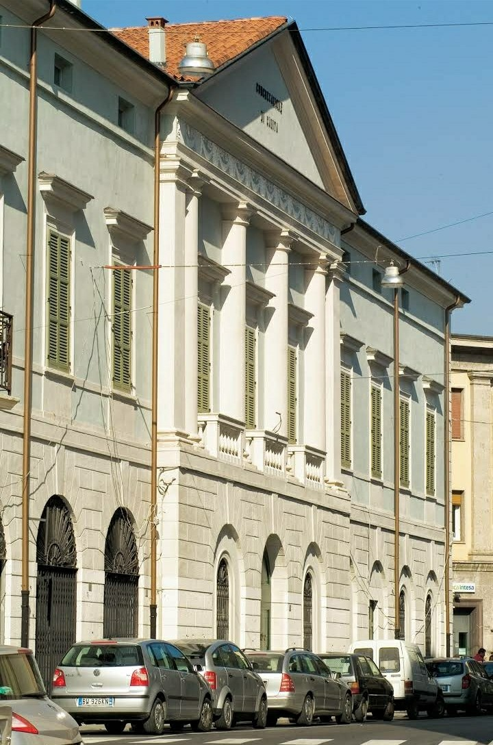 Palazzo Monte dei Pegni